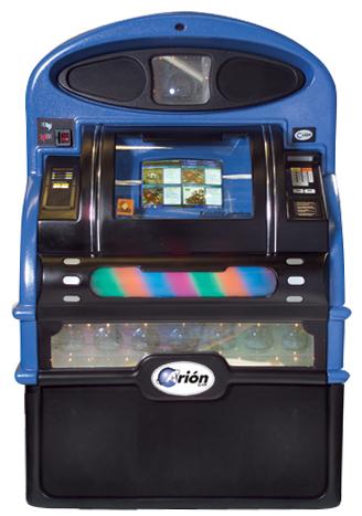 Photo of a digital Nyx jukebox